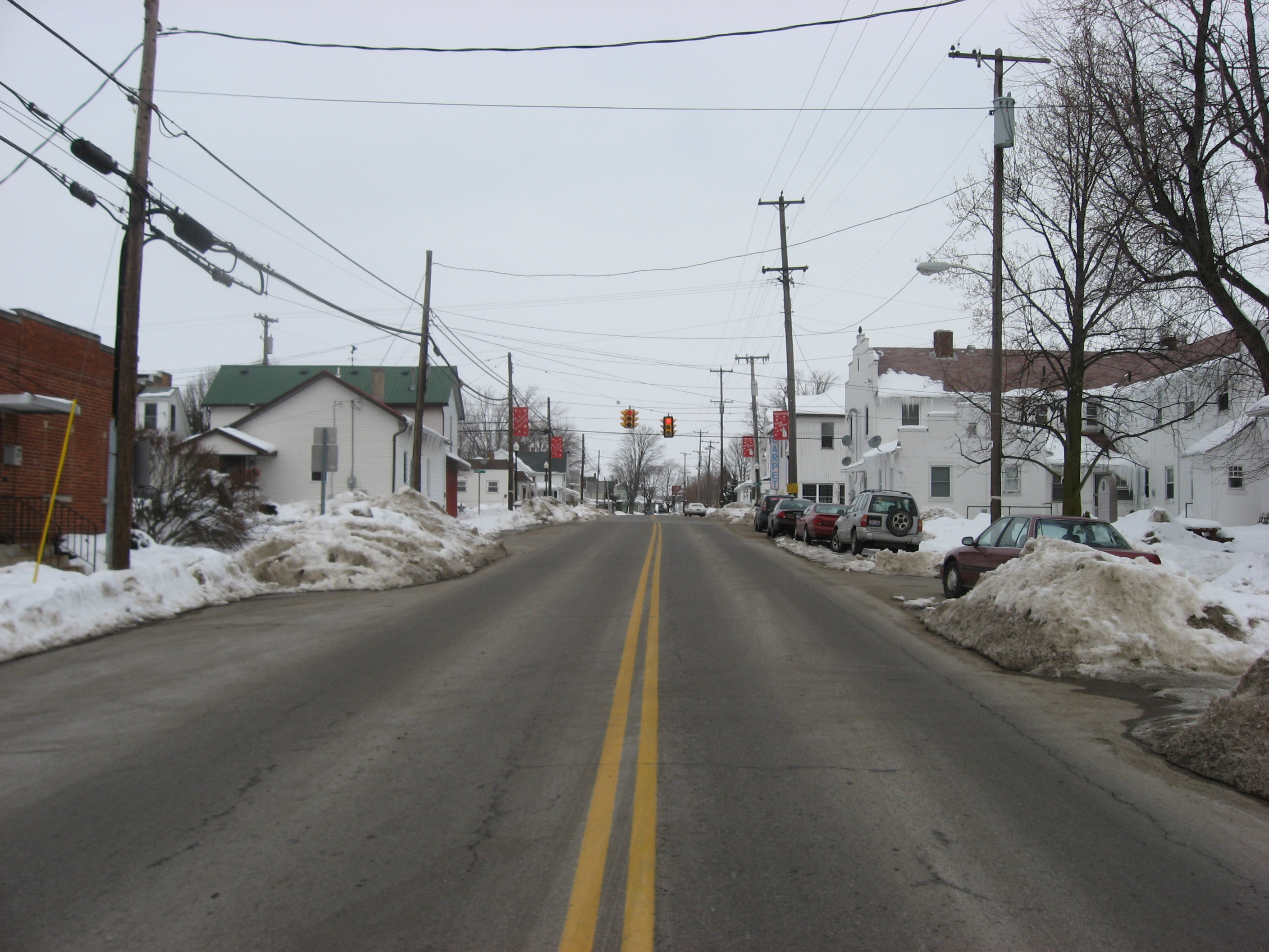 Looking north along Urbana Street (State Route 54) in South Vienna, Ohio, United States.